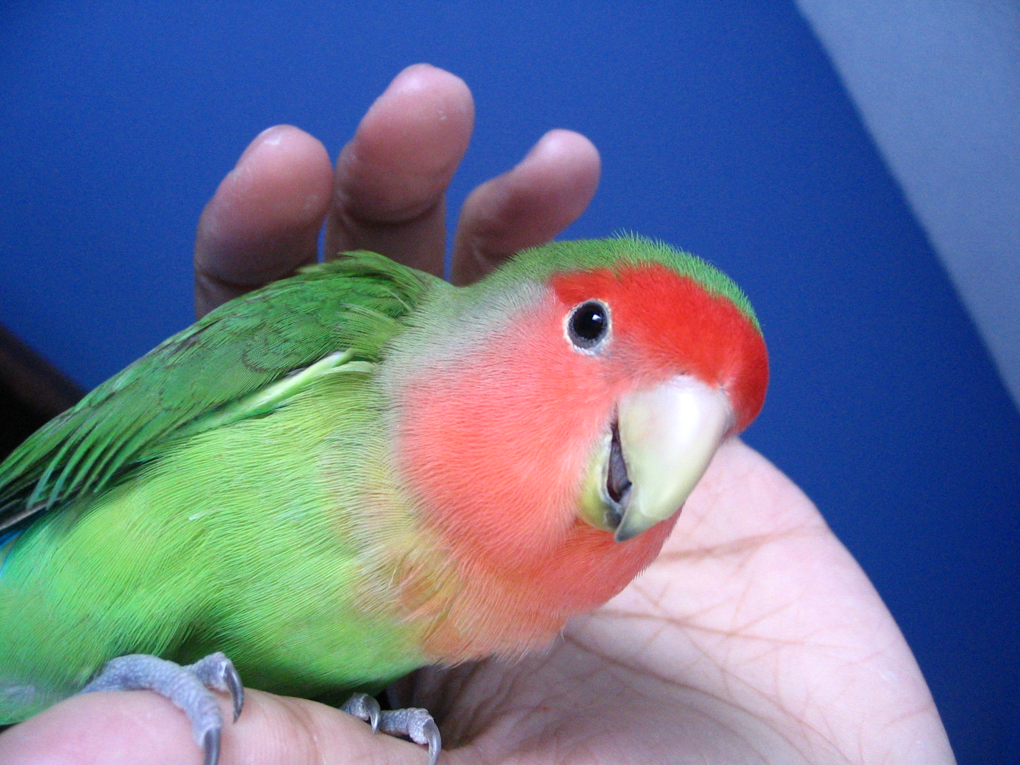 A peach face lovebird. Created 05/23/2006 by Ajit.